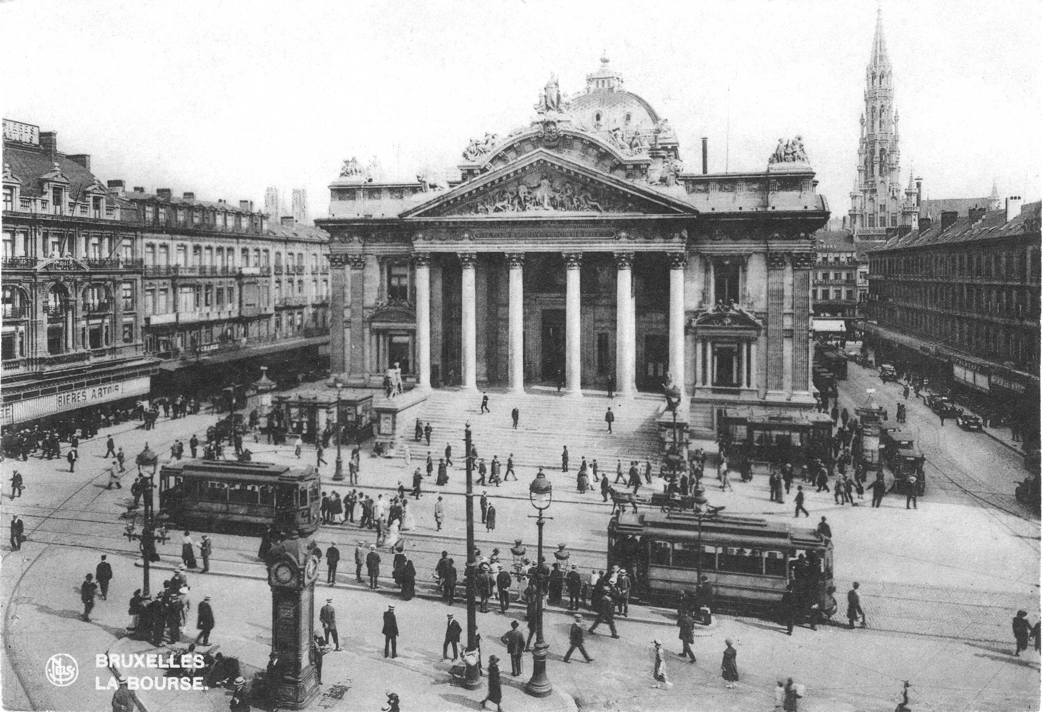 Brussels stockexchange in the 1920s. This place was the centre of the urban tramnetwork.